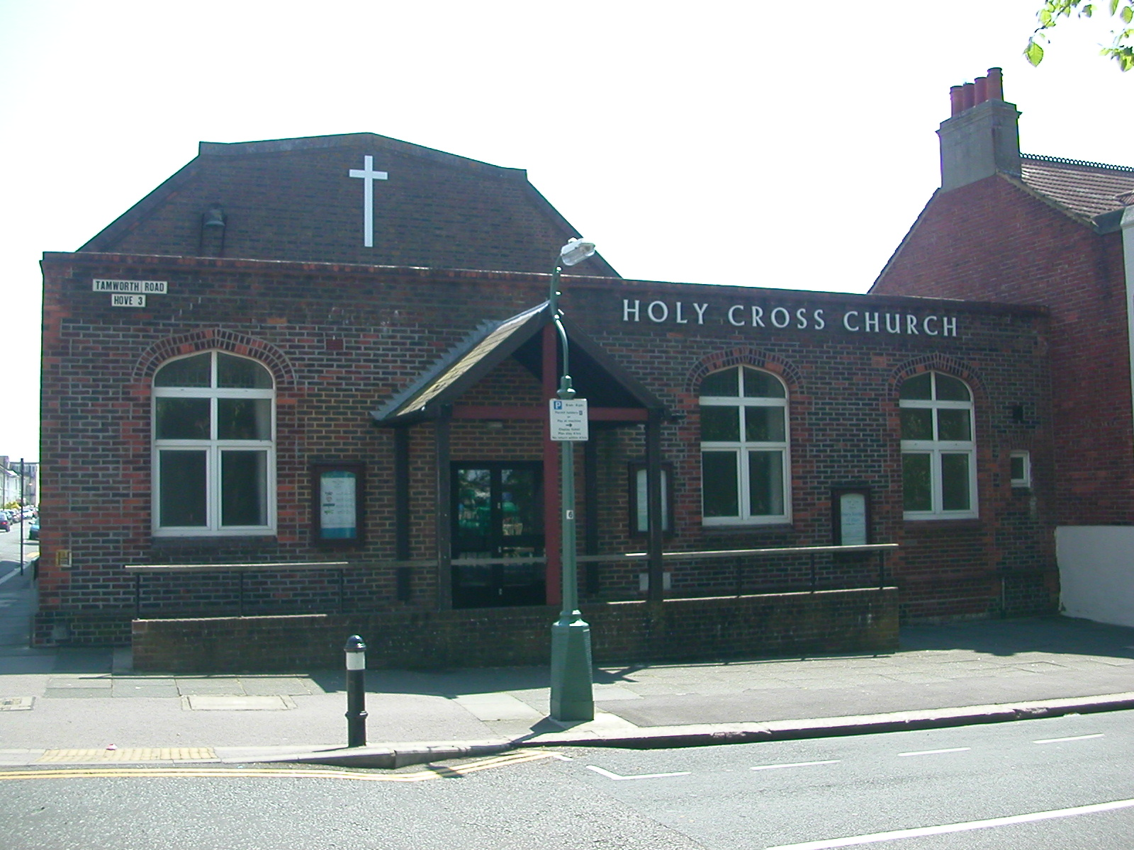 Church of the Holy Cross, Tamworth Road, Aldrington, looking east. Photographed on 2nd June 2007.